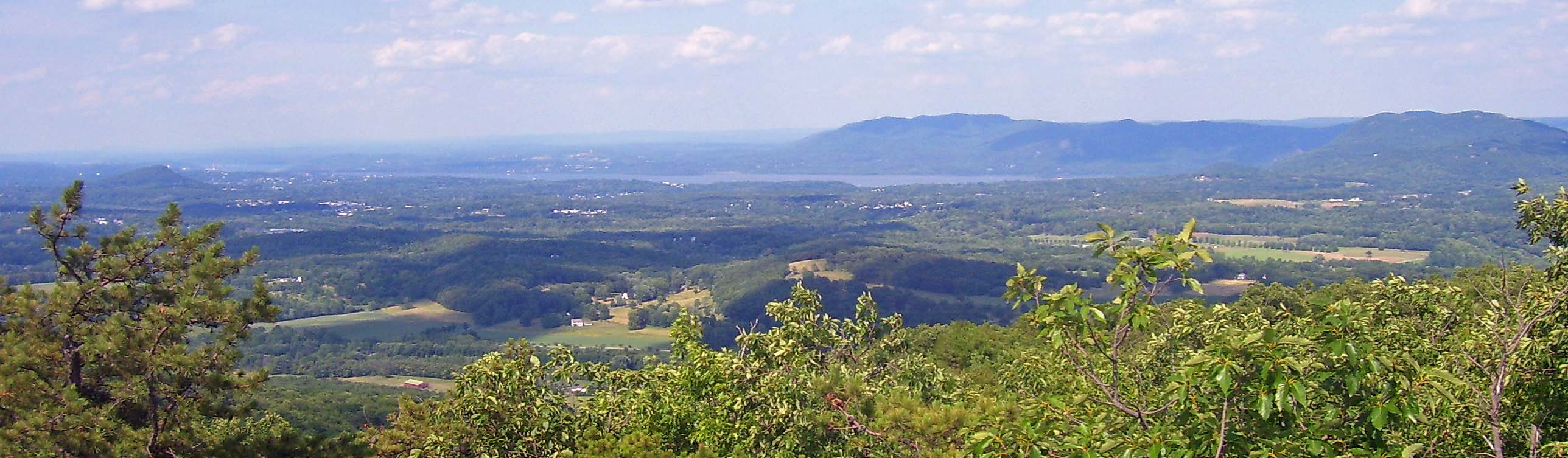 Panoramic view of much of the Town of Cornwall, NY, USA from north end of Schunemunk Mountain